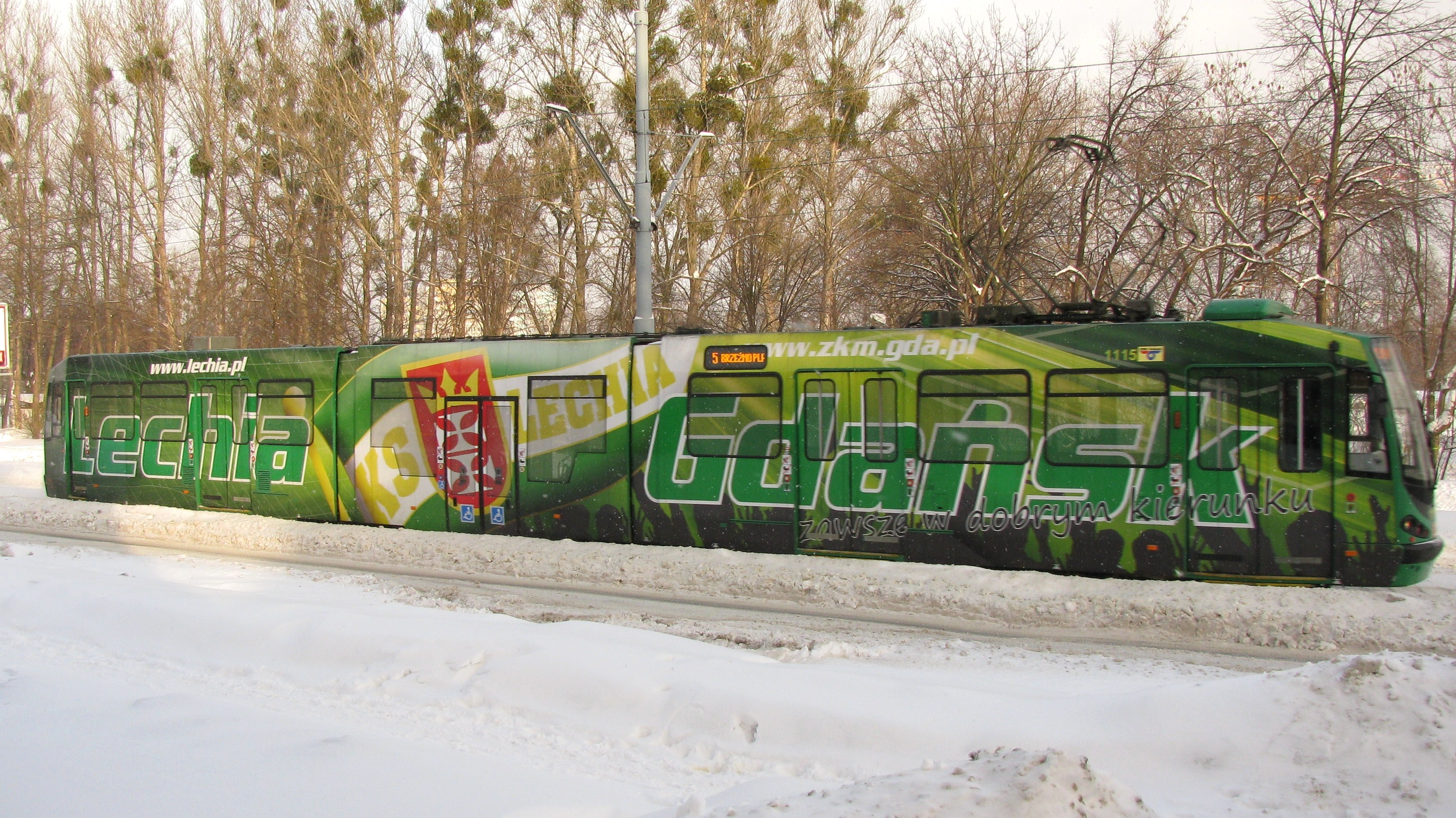 A Moderus Beta MF 01 tram in Gdańsk, Lechia Gdańsk football club coloured.